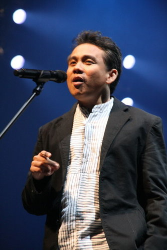 Su Boonliang at Babb Prapas Concert's concert at National Cultural Center, Sunday 6th July, 2008.